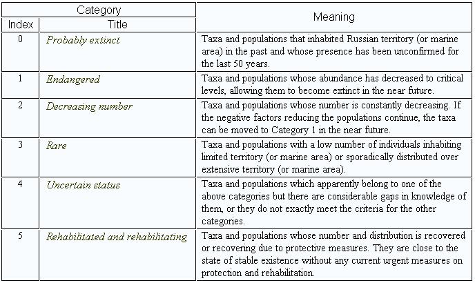 Category table for the Russian Red Data Book, a state document that lists and categorizes rare and endangered species.